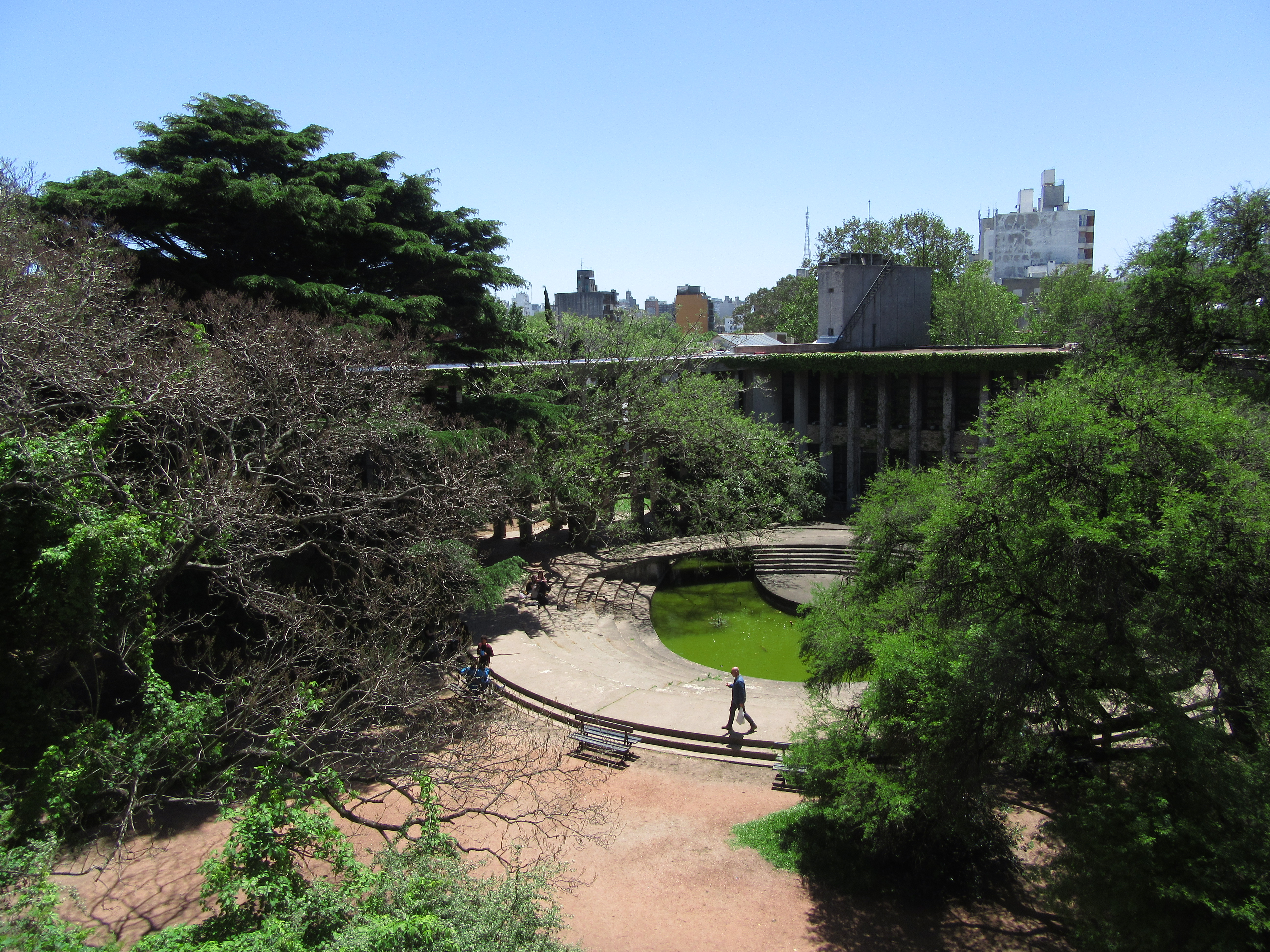 Montevideo